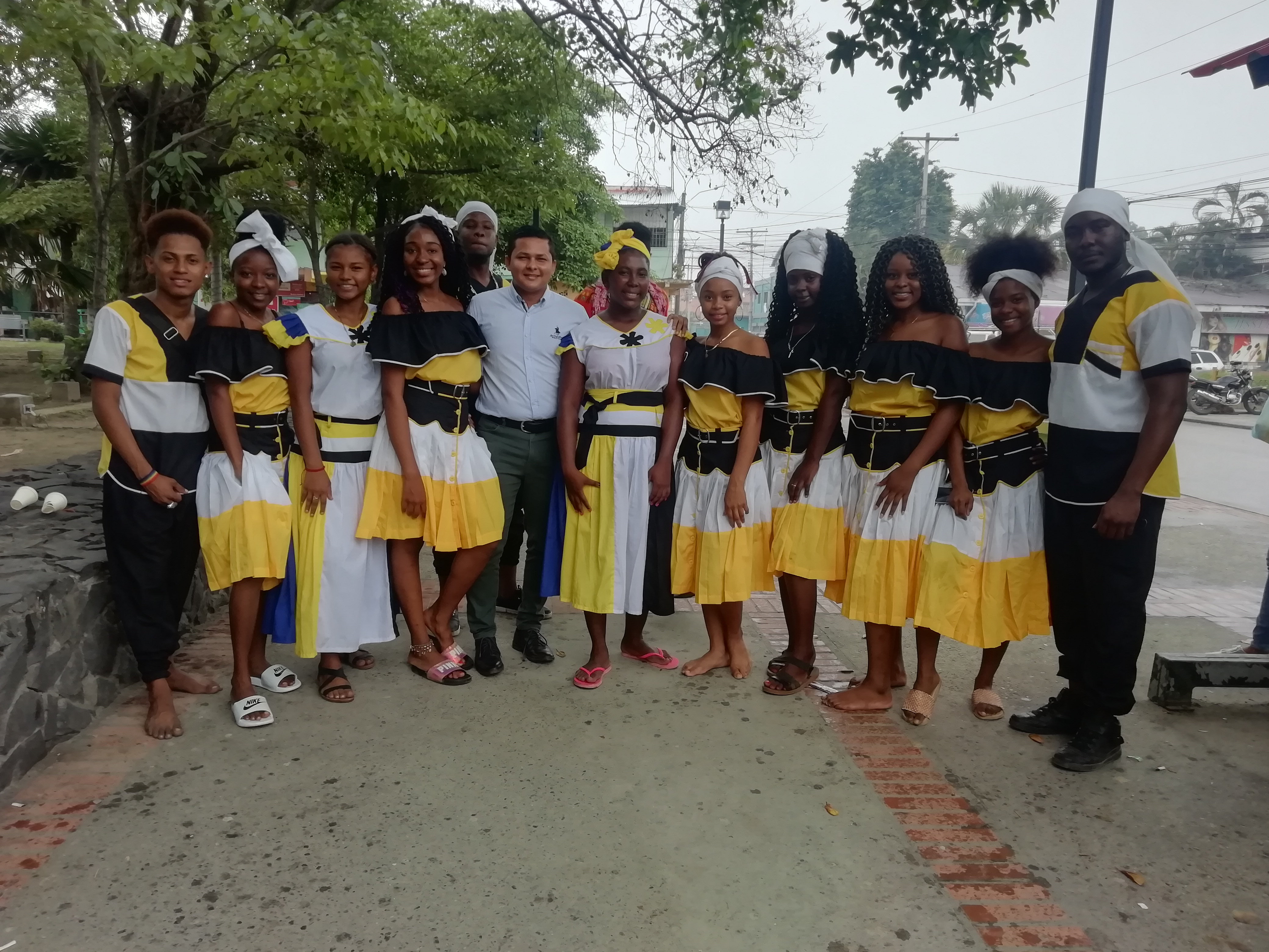 Grupo de jóvenes Garifuna que hicieron su presentación en el parque de Choloma, Cortés.